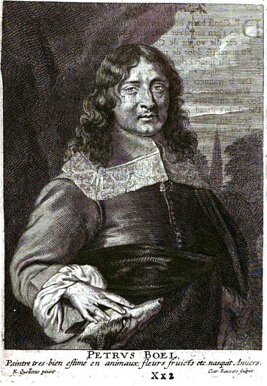 Portrait of Petrus Boel in Cornelis de Bie's Gulden Cabinet.